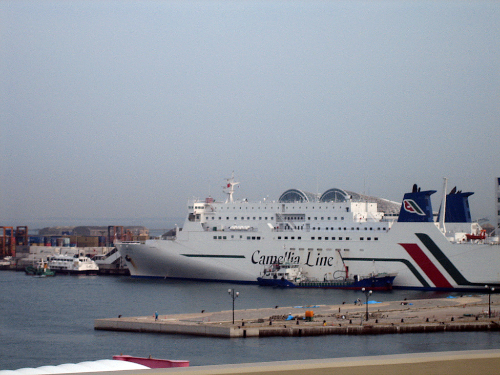 New Camellia at the Port of Hakata. She goes daily between Hakata and Pusan.